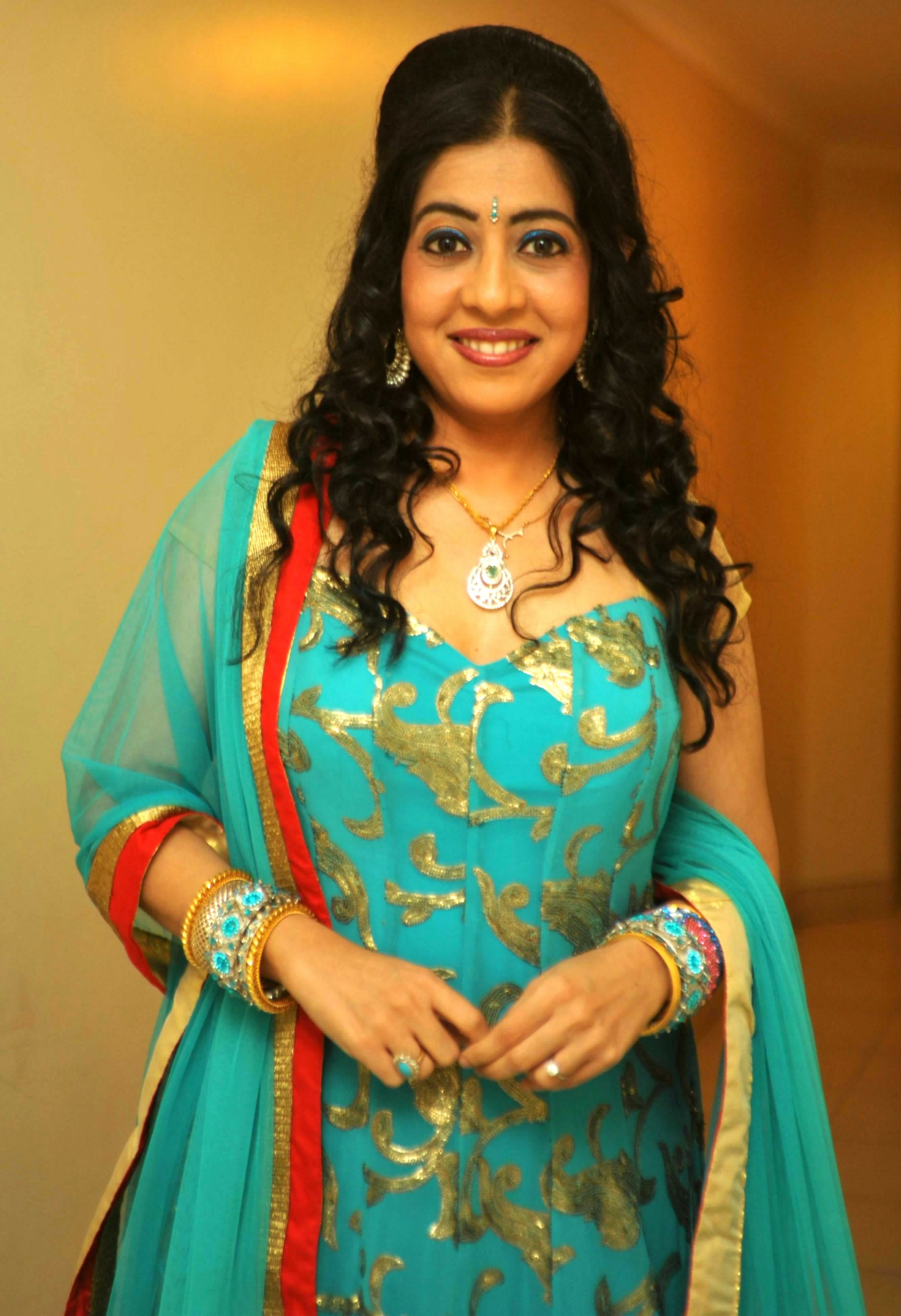 Sanjeevani at the Waheeda Rehman concert